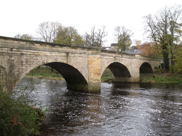 Boston Spa Original description: Boston Spa Bridge A fine stone bridge spanning the Wharfe at Boston Spa. The bridge dates from 1772, replacing a ford. It is said that the bridge was constructed so that the local hunt could cross the river without fear of a wetting.